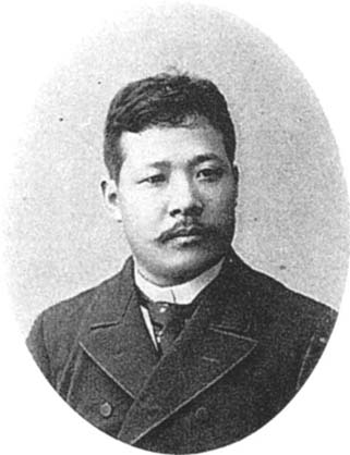 K. Tsuboi, Professor of History and Geography.